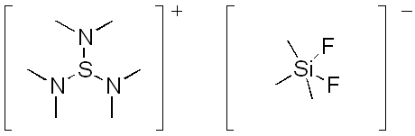 chemical structure of tris(dimethylamino)sulfonium difluorotrimethylsilicate (TASF)